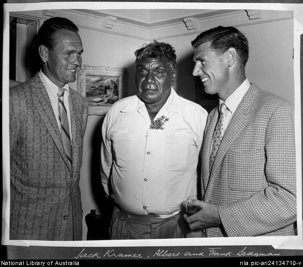 A digital image of the portrait is available from the National Library of Australia (NLA) website. The NLA image contains spurious indexing information along the bottom. This image is a cropped version that eliminates these.